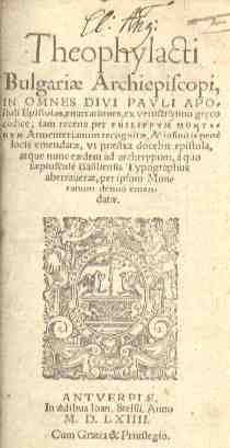 Title page of a 16th-century Latin translation of the biblical commentaries of Theophylact of Bulgaria (1078-1107)